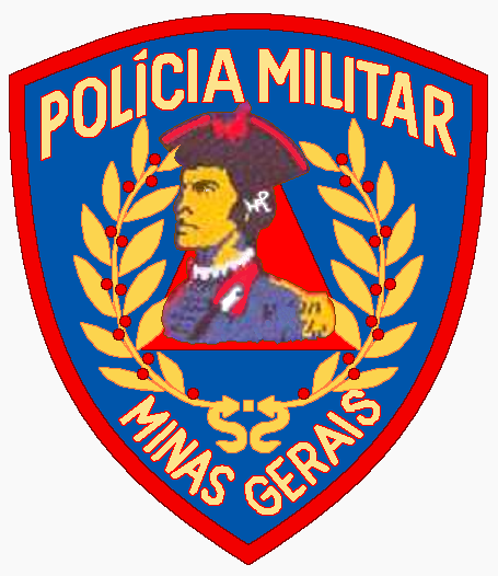 Coat of arms of Military Police - PMMG - Brazil.